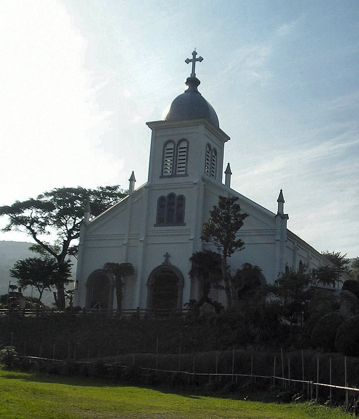 Ōe Catholic Church, Amakusa City, Kumamoto, Japan